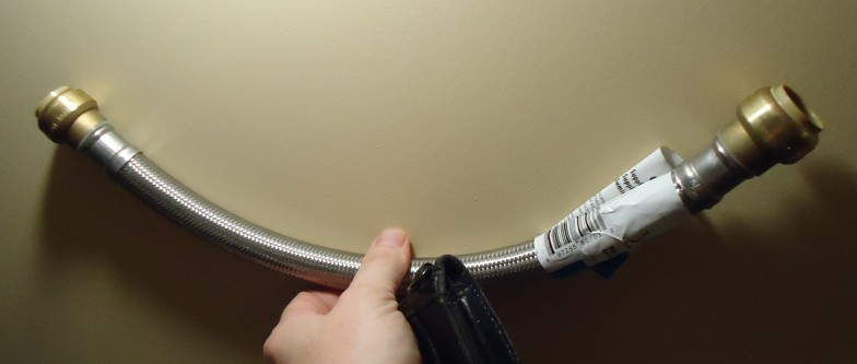 This eighteen inch long flexible pipe connector has grips at each end, allowing it to attach easily to a three-quarter inch pipe end.